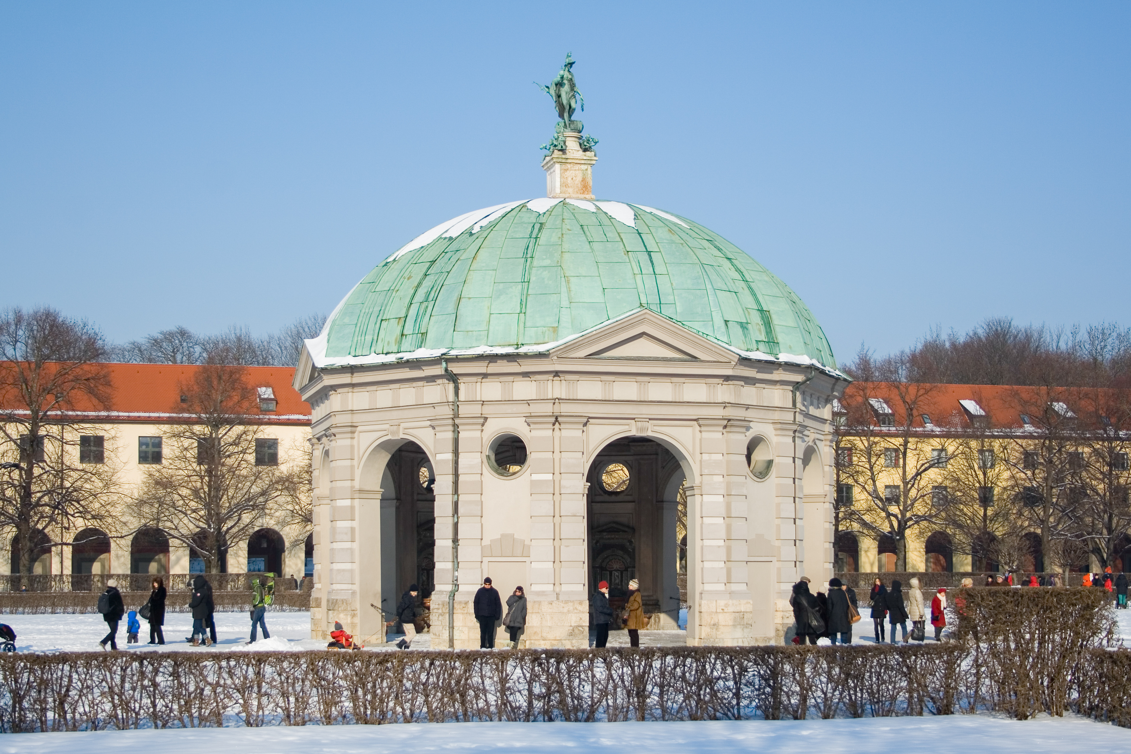 Diana temple, Munich, Germany